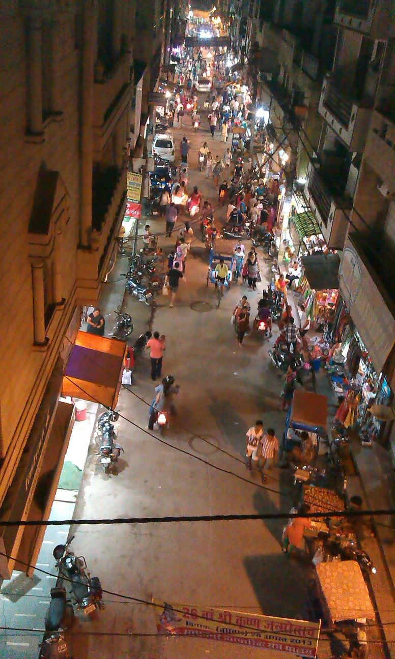 Ramchowk Palam View From Sky